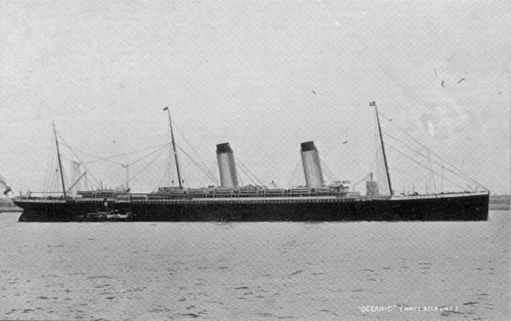 RMS Oceanic from an old postcard